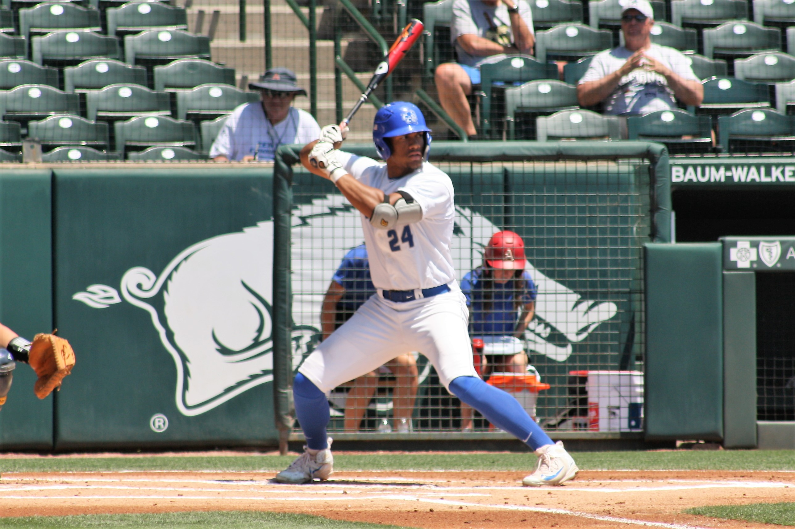 Central Connecticut State University infielder TT Bowens bats against the University of California Golden Bears at Baum-Walker Stadium, host of the Fayetteville Regional